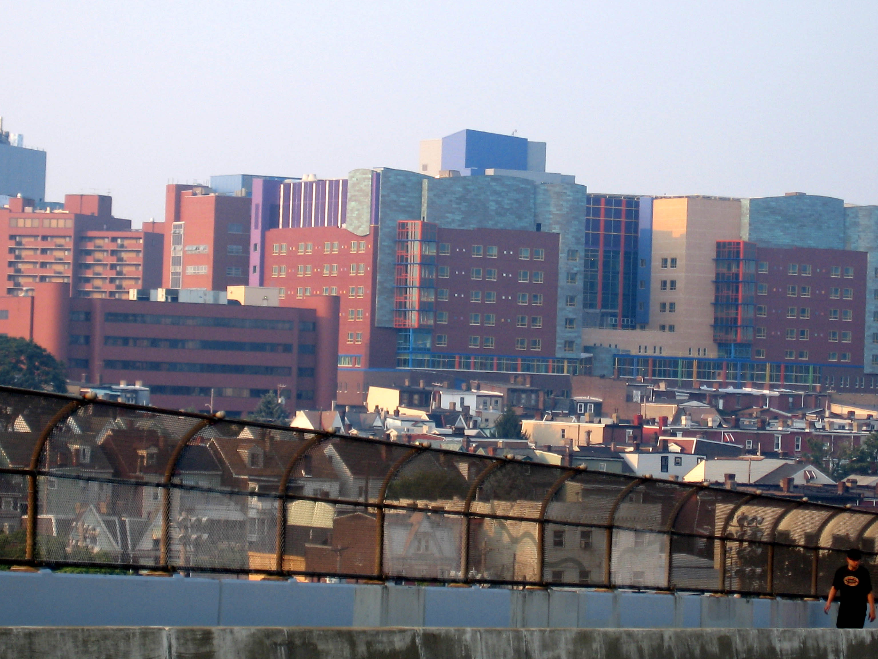 Children's Hospital of Pittsburgh of UPMC.